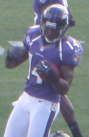 Patrick Williams, wide receiver for the Baltimore Ravens at Navy–Marine Corps Memorial Stadium practice in August, 2012.